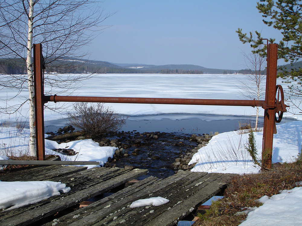 The outlet of lake Gäddträsket with the remains of a dam which was formerly used for timber floating